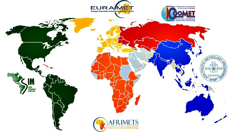 Regional metrological organizations.